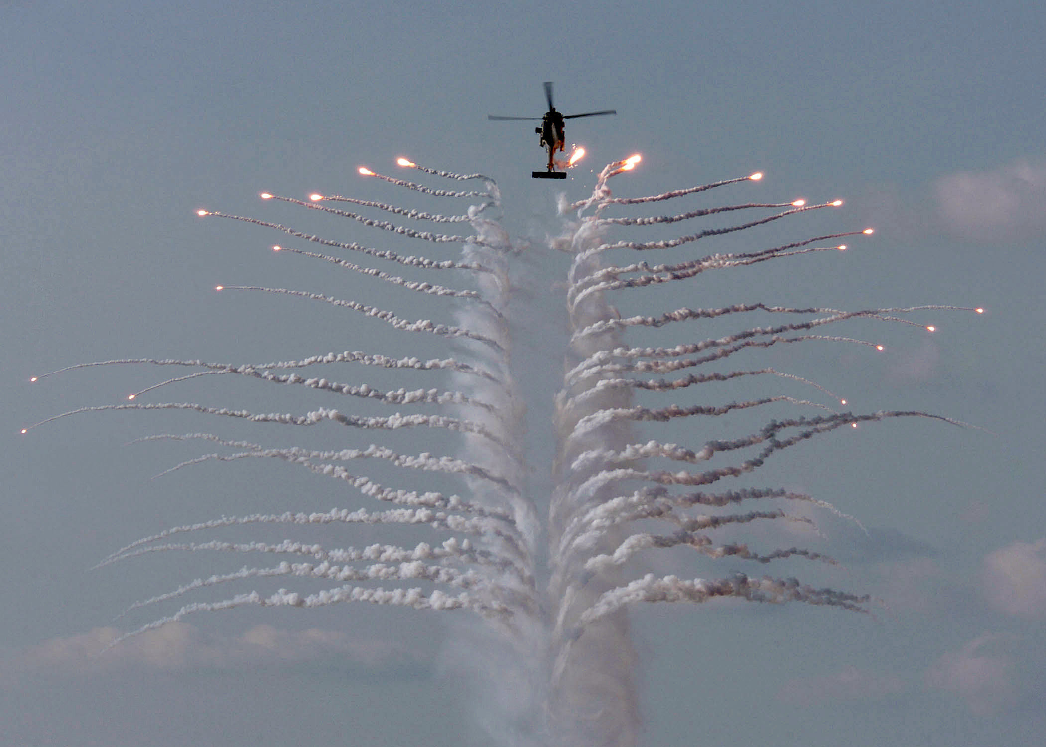 A US Navy (USN) HH-60H SEAHAWK helicopter, Helicopter Anti-Submarine Squadron 14 (HS-14), Chargers, Naval Air Station (NAS) Atsugi, Japan, discharges countermeasure flares. Flares are part of the aircrafts defense against surface-to-air and air-to-air infra-red (IR) heat-seeking missile attacks. The heat created by the flare will hopefully burn hotter than the aircraft engine and attract the incoming missile away from the aircraft.